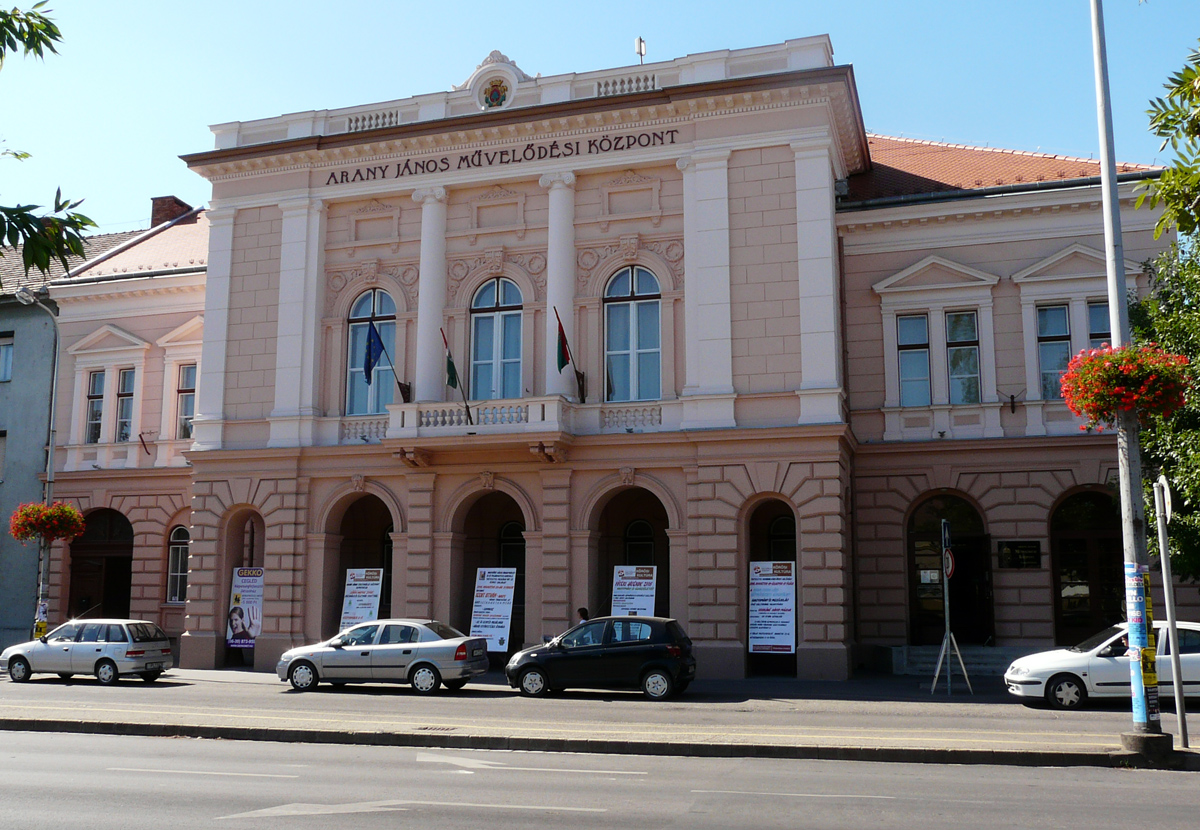 Nagykőrös (Hungary)